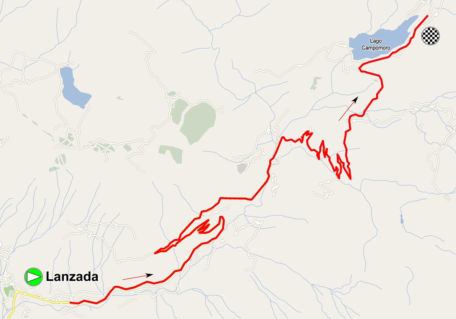 Map of stage 7 of Giro donne 2018.